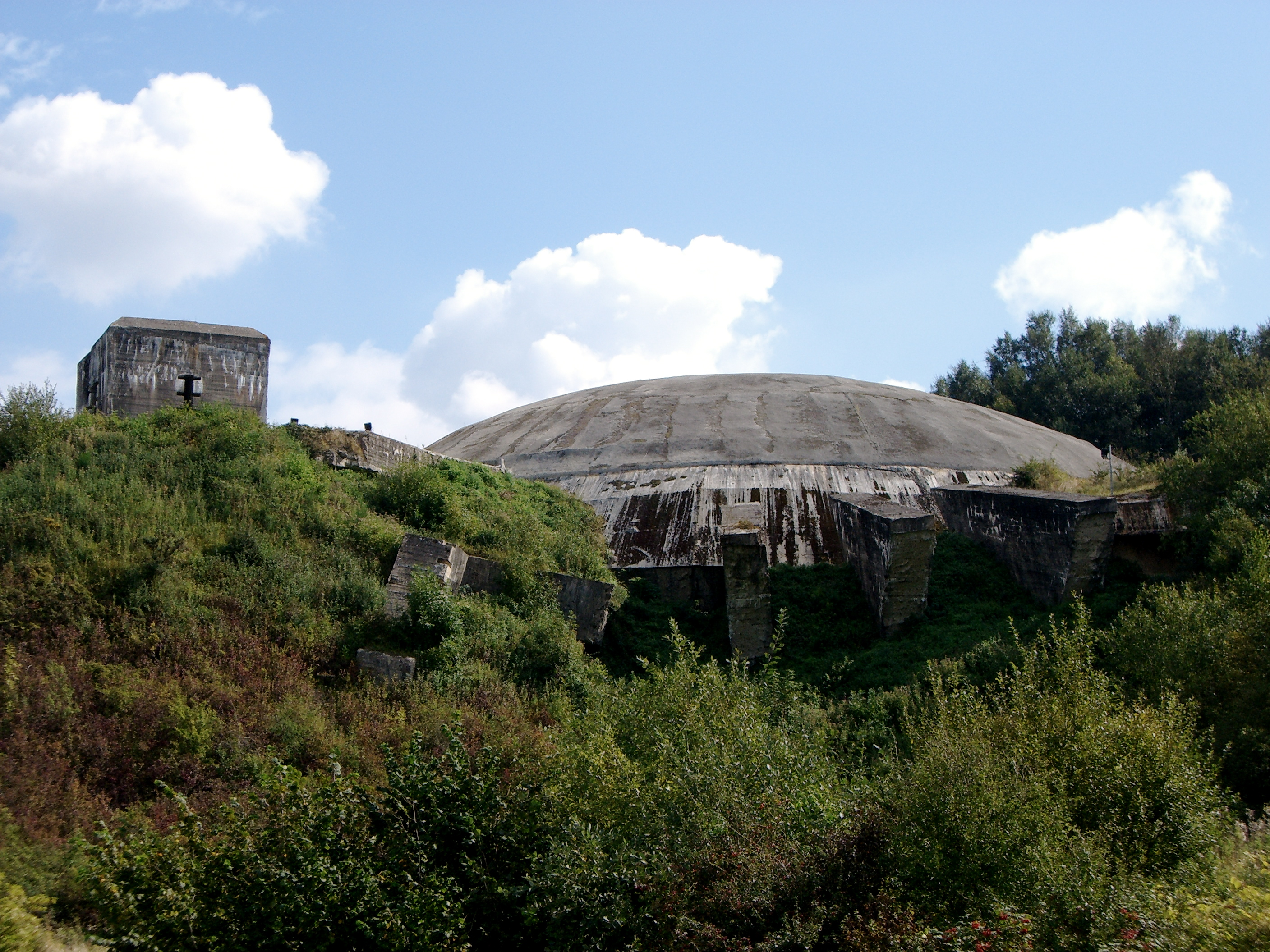 Exterior view of la Coupole